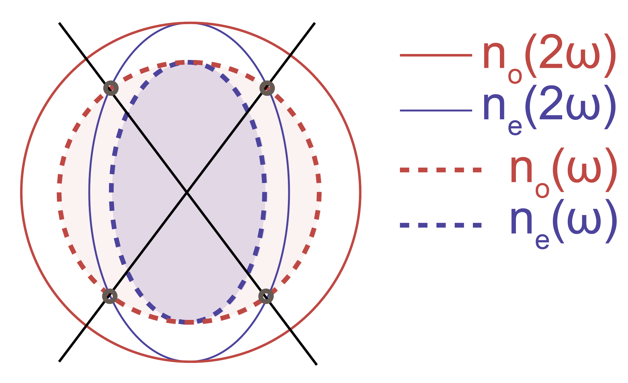 Phase-matching illustration